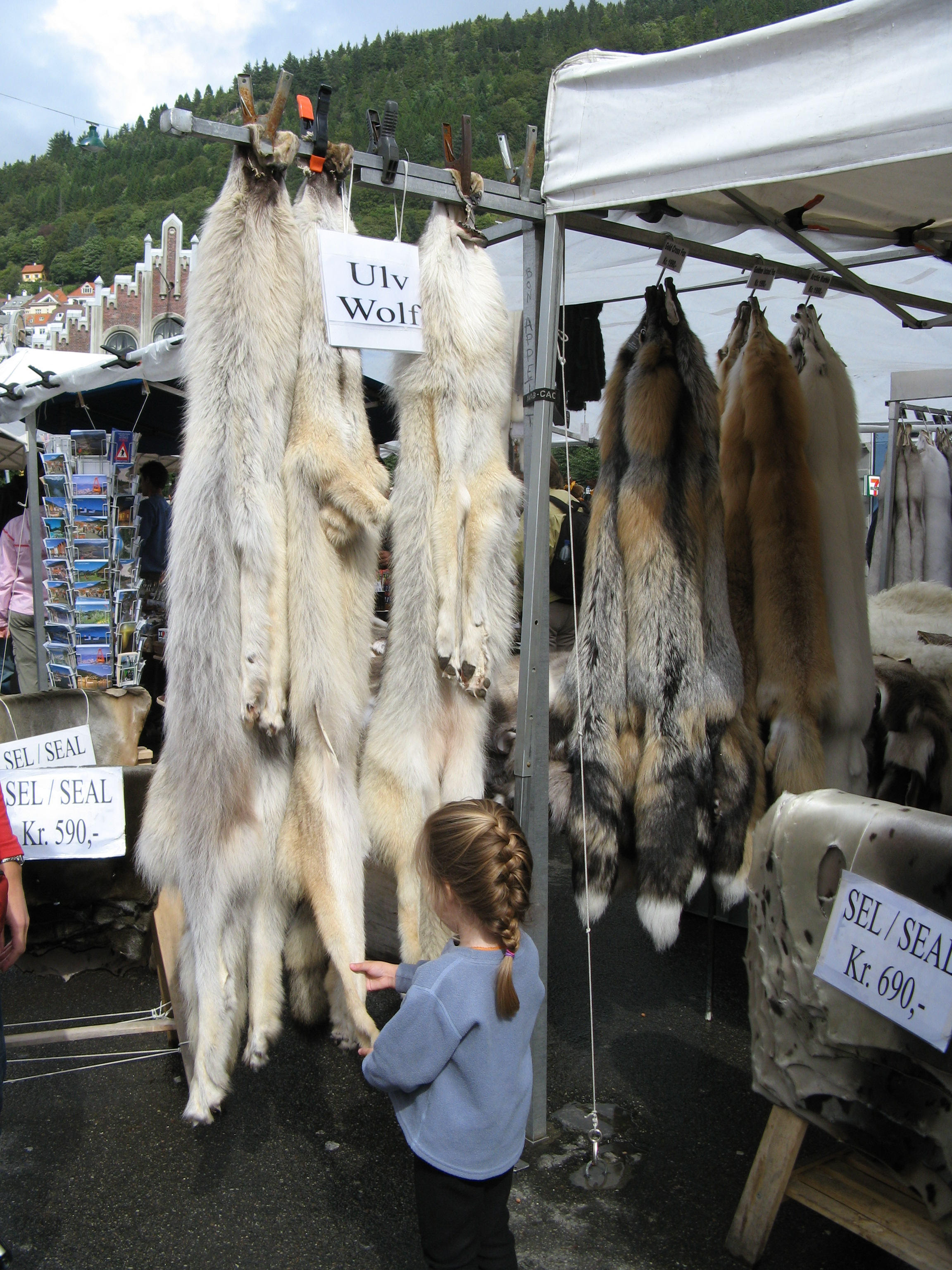 Wolf, red fox and seal skins at a Norwegian fur market in Bergen